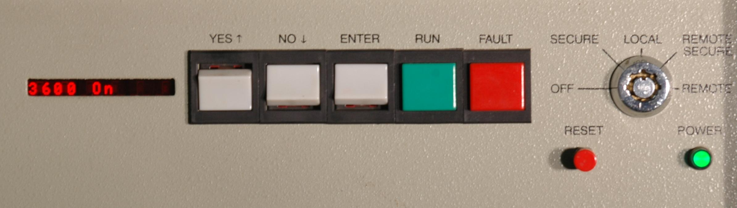 Closeup of a Symbolics 3600 Lisp Machine front panel. From the collection of the RCS/RI.